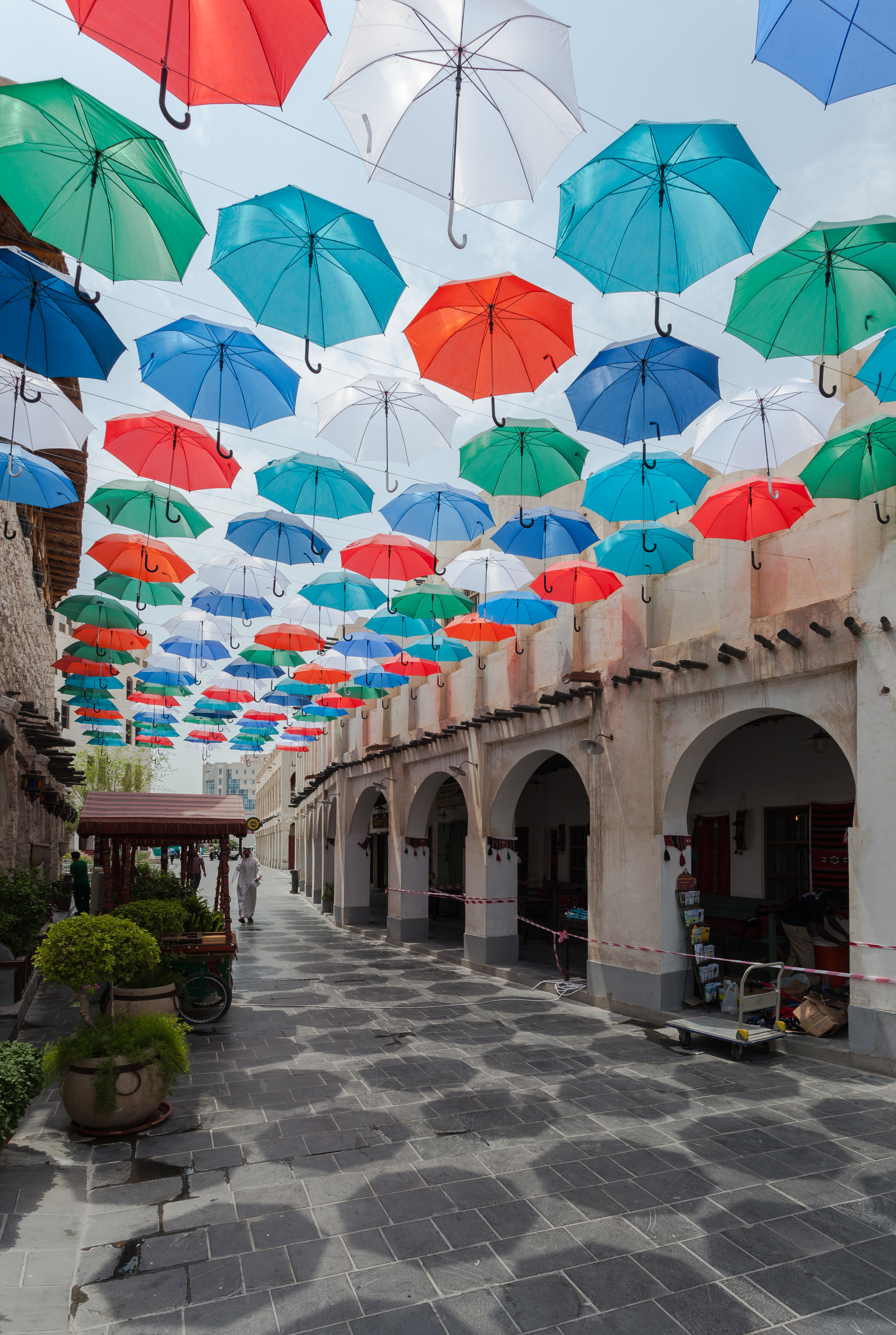 Souq Waqif, Doha, Qatar